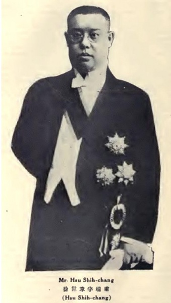 Xu Shizhang (1889－1954)